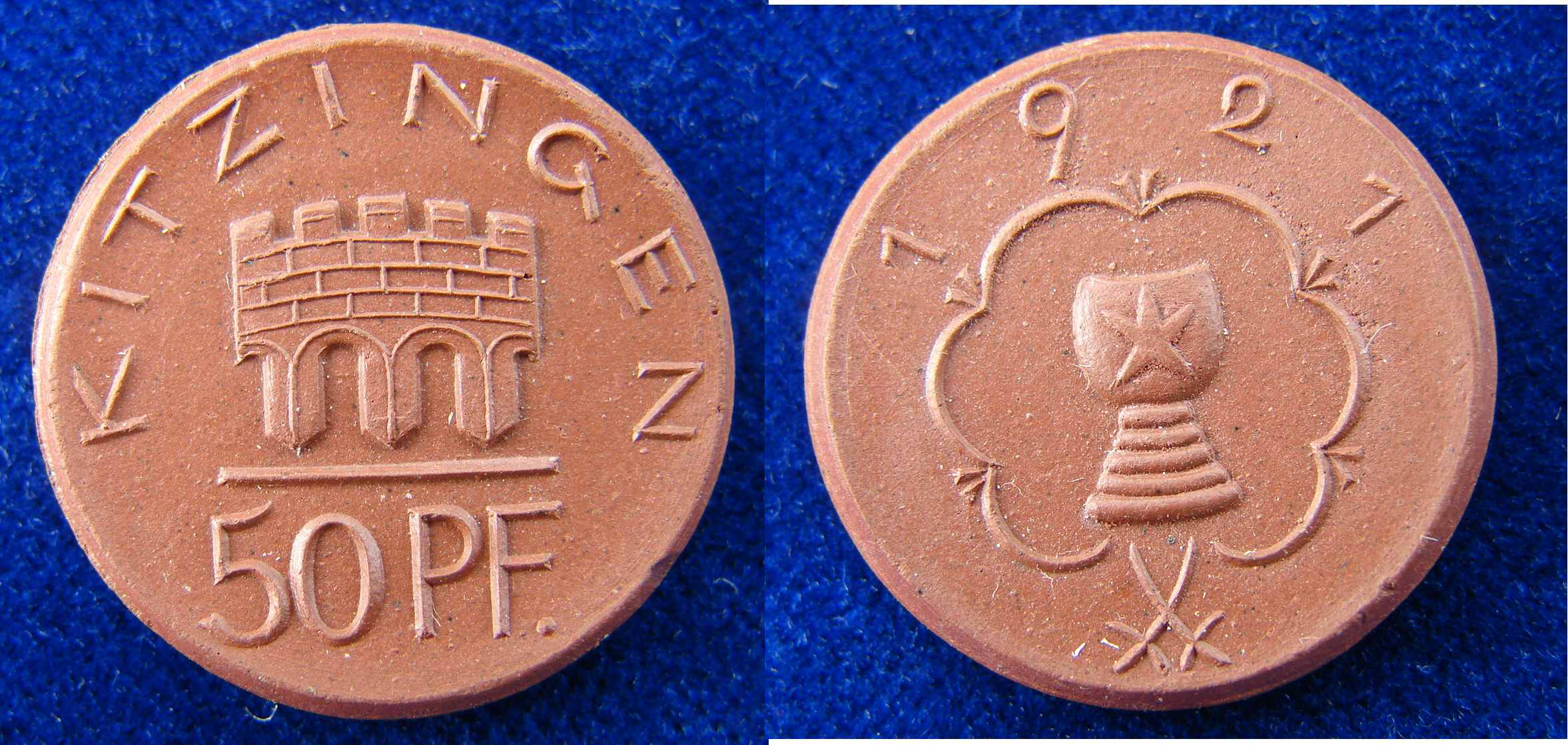 Notgeld red-brown Meissen Porcelain, D. = 23 mm. Value below arms, curved above: "KITZINGEN"/ Wine glass, below the arms of the Porzellanmanufaktur Meissen, date curved above. Scheuch 147a. Condition: Almost UNCIRCULATED